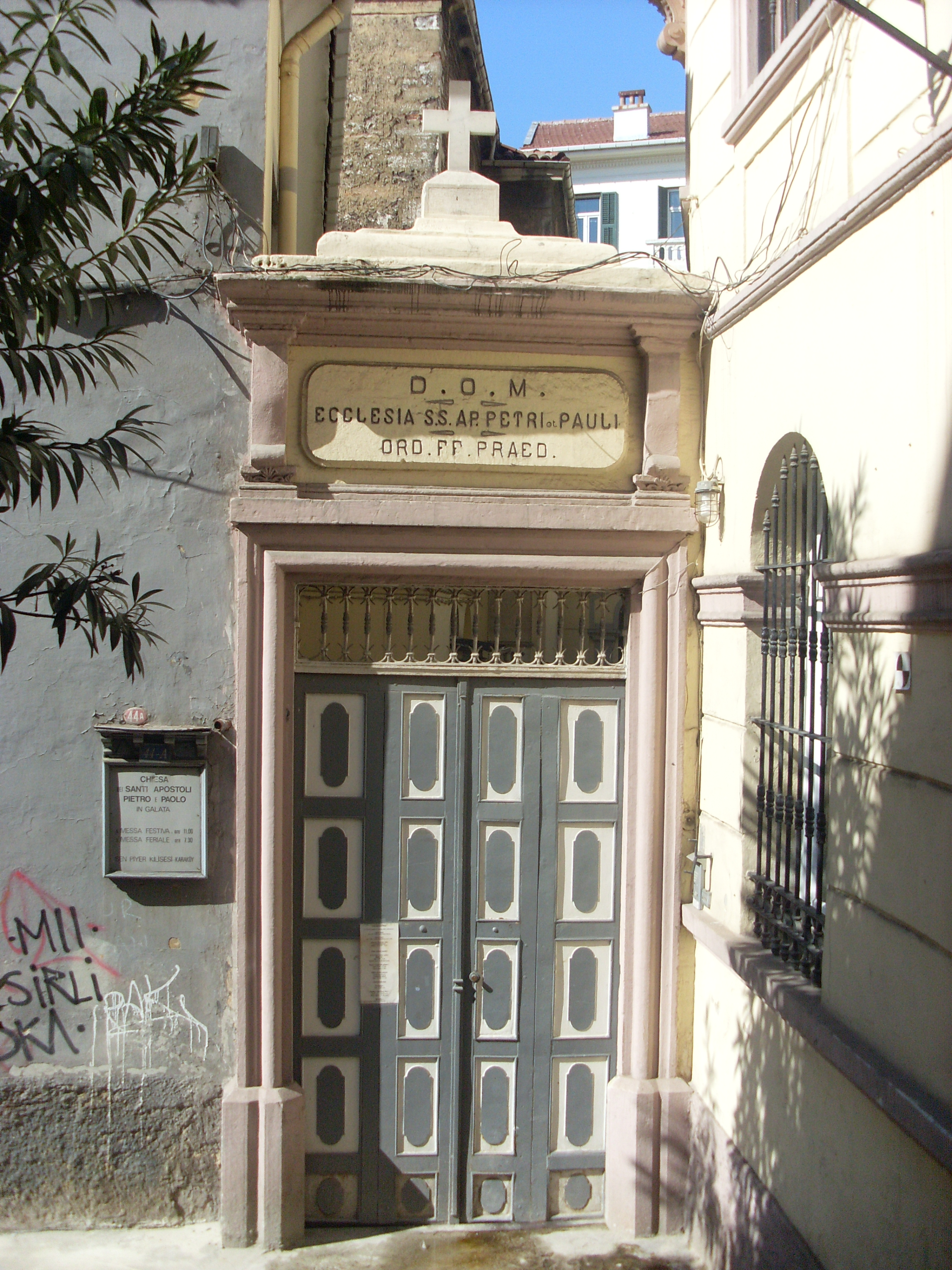 İstanbul - Church of SS Peter and Paul, - Karaköy - Mar 2013